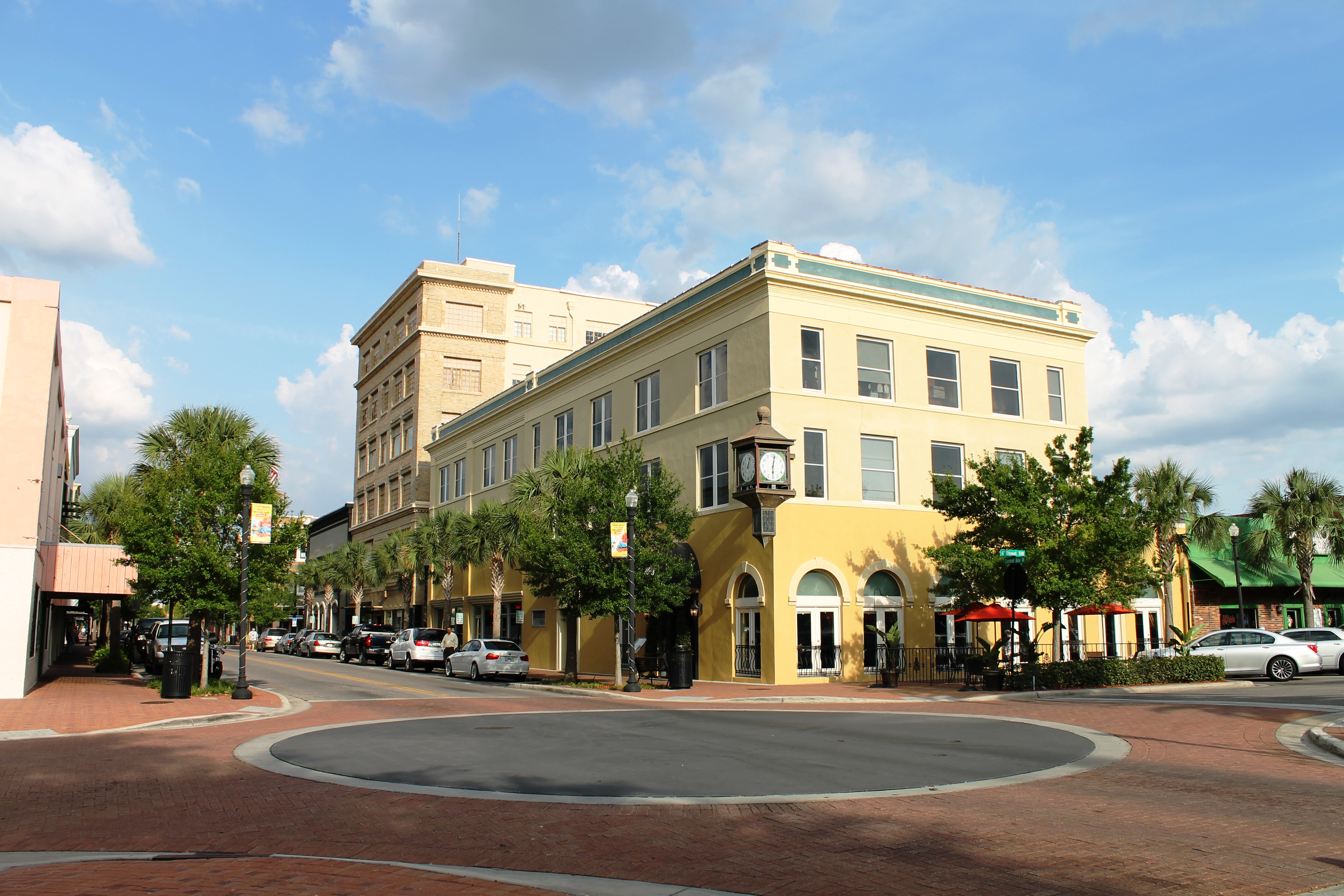 This is an photograph of Winter Haven, Florida's downtown.